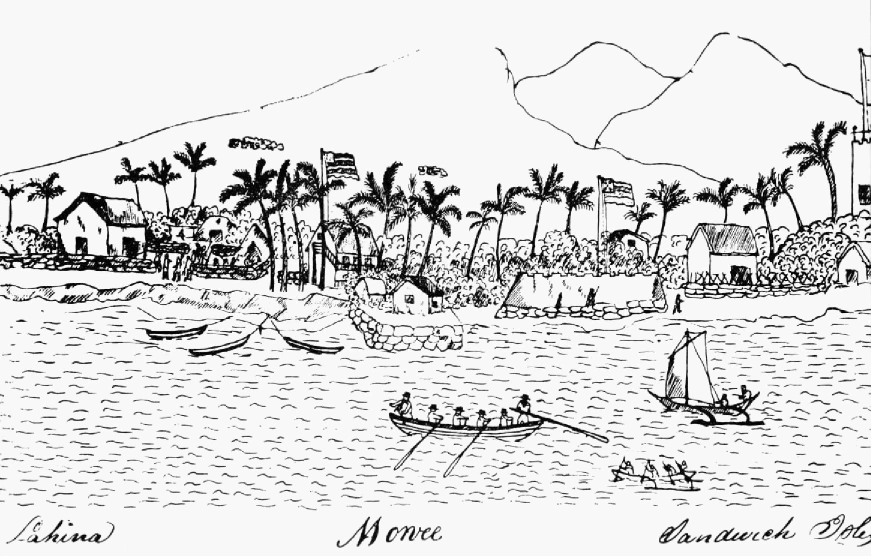 A whaleman's view of Lahaina in 1835. From the journal of John Celand, Jr., a whaleman aboard the Ceres of Wilmington. Courtesy of The Mariners Museum of Newports News, Virginia.